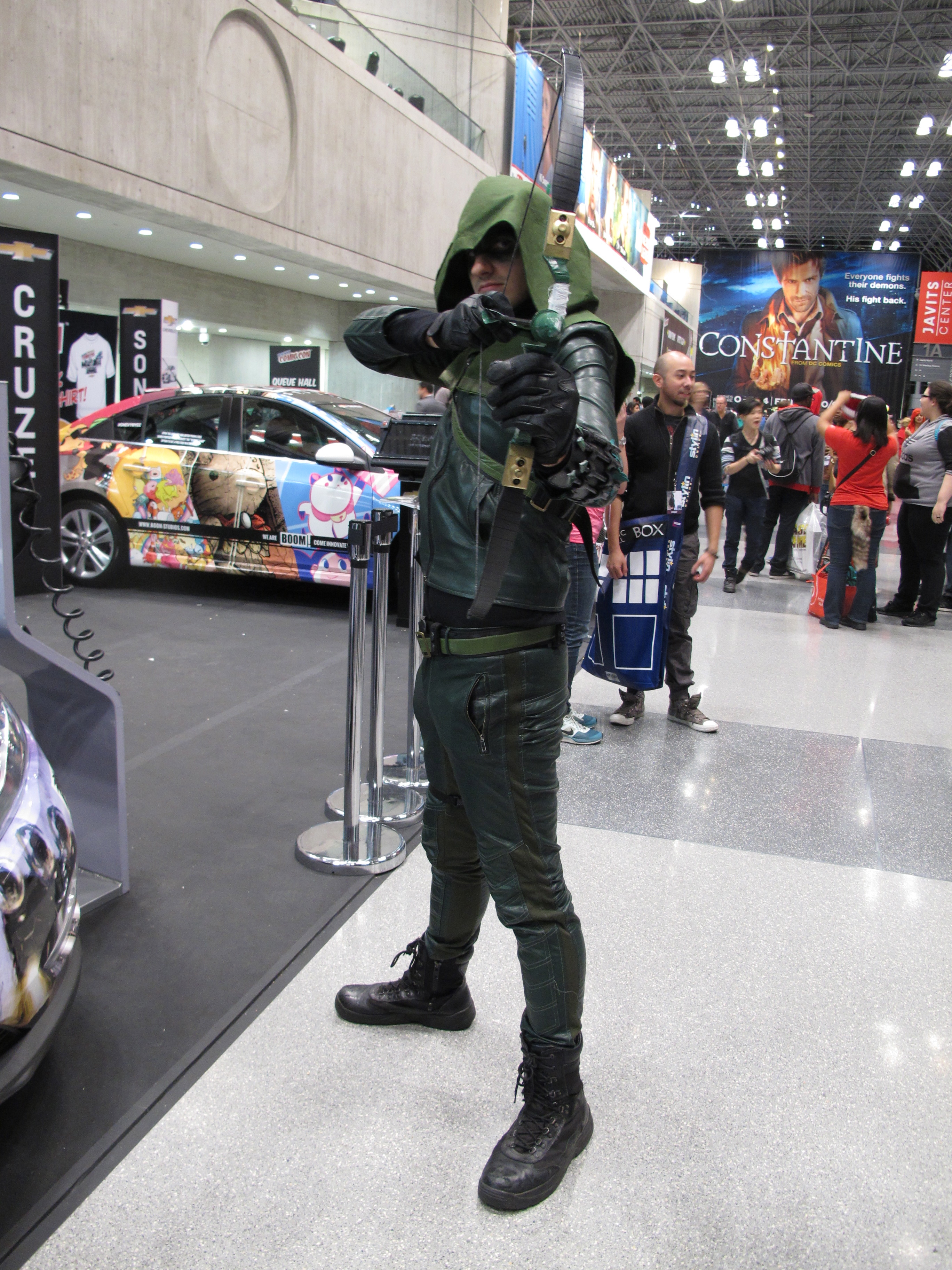 Green Arrow Cosplay at the 2014 New York Comic Con.